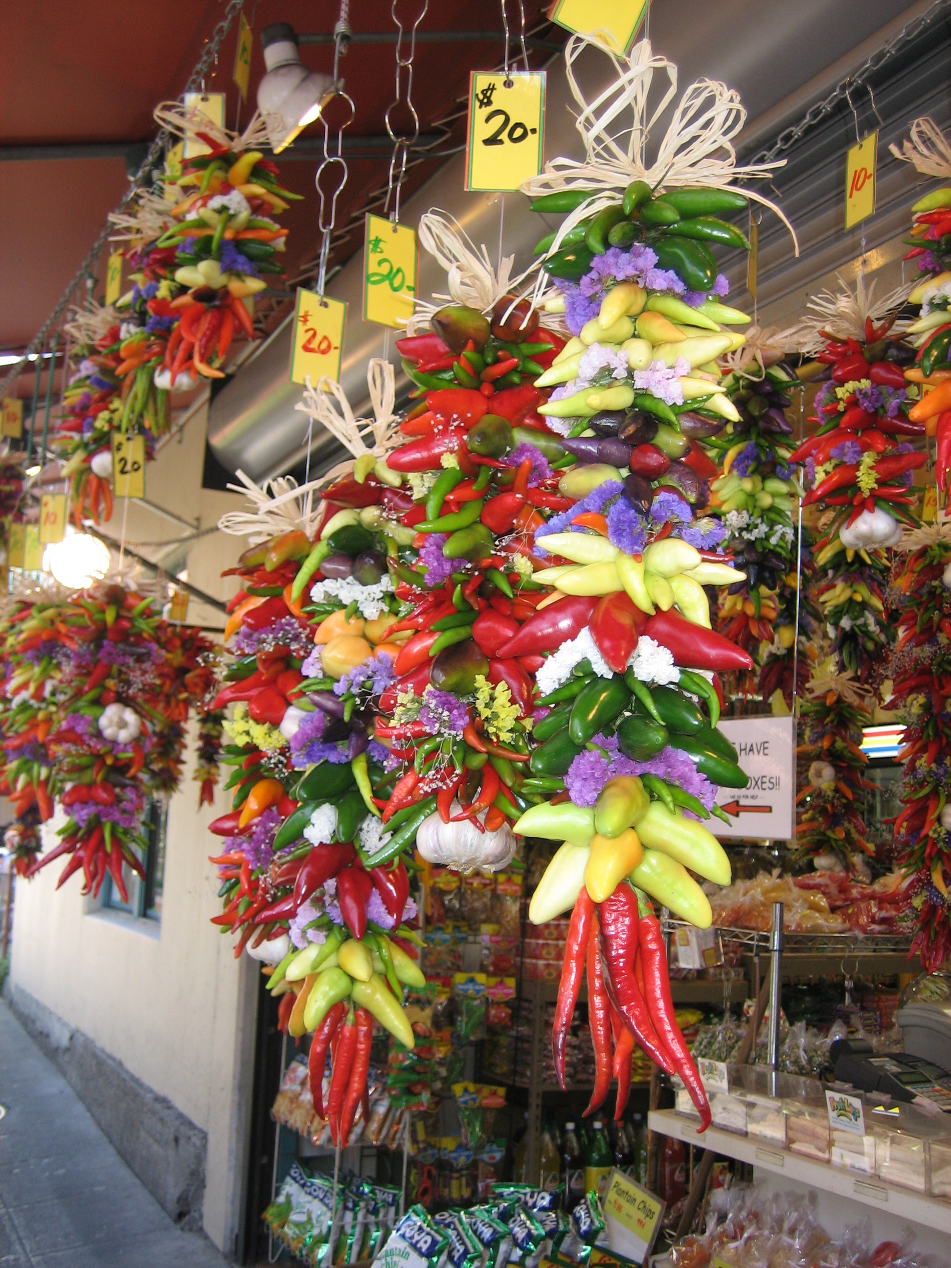 Decorative chili peppers for sale at Seattle, Washington's Pike Place Market. Image en:26 August, en:2005 by Fawcett5